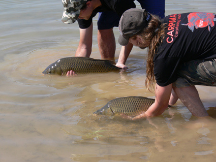 Catch and Realease